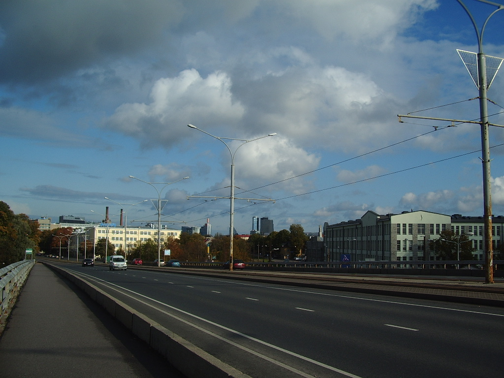 View in Tallinn